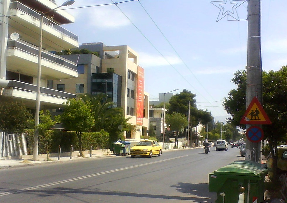 sreet